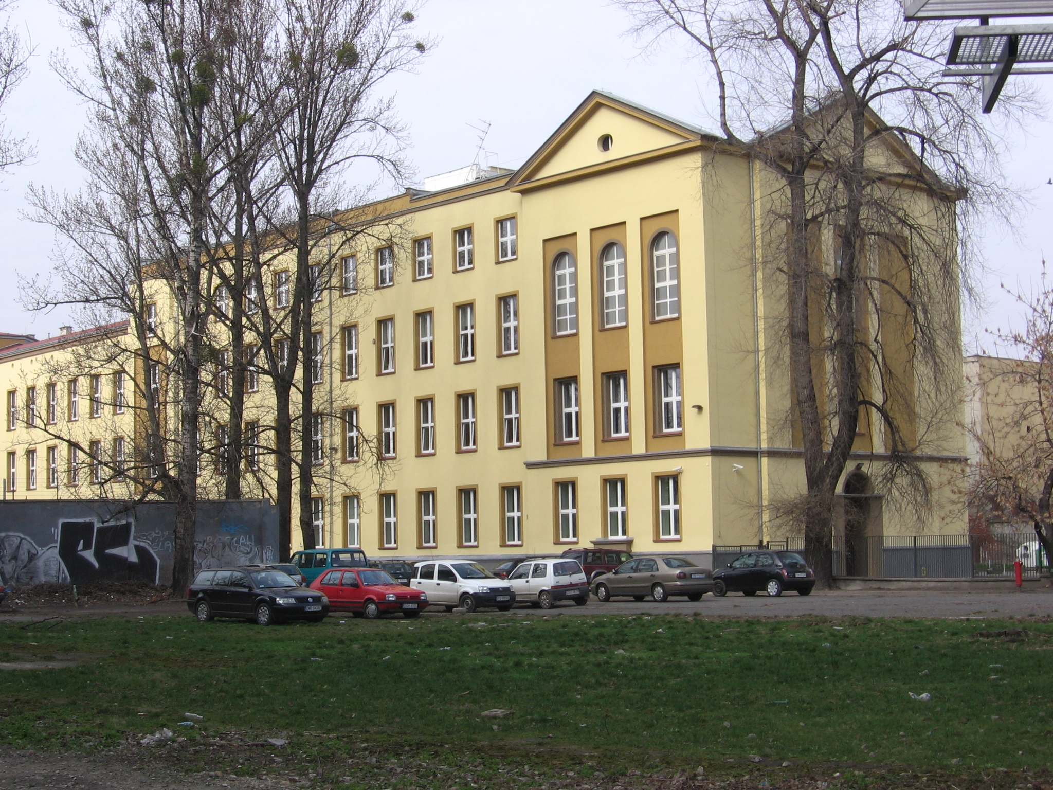 C. J. Ch. Zimmermann, Catholic and Protestant secondary school in Wroclaw, 1865, later altered. View from south east.